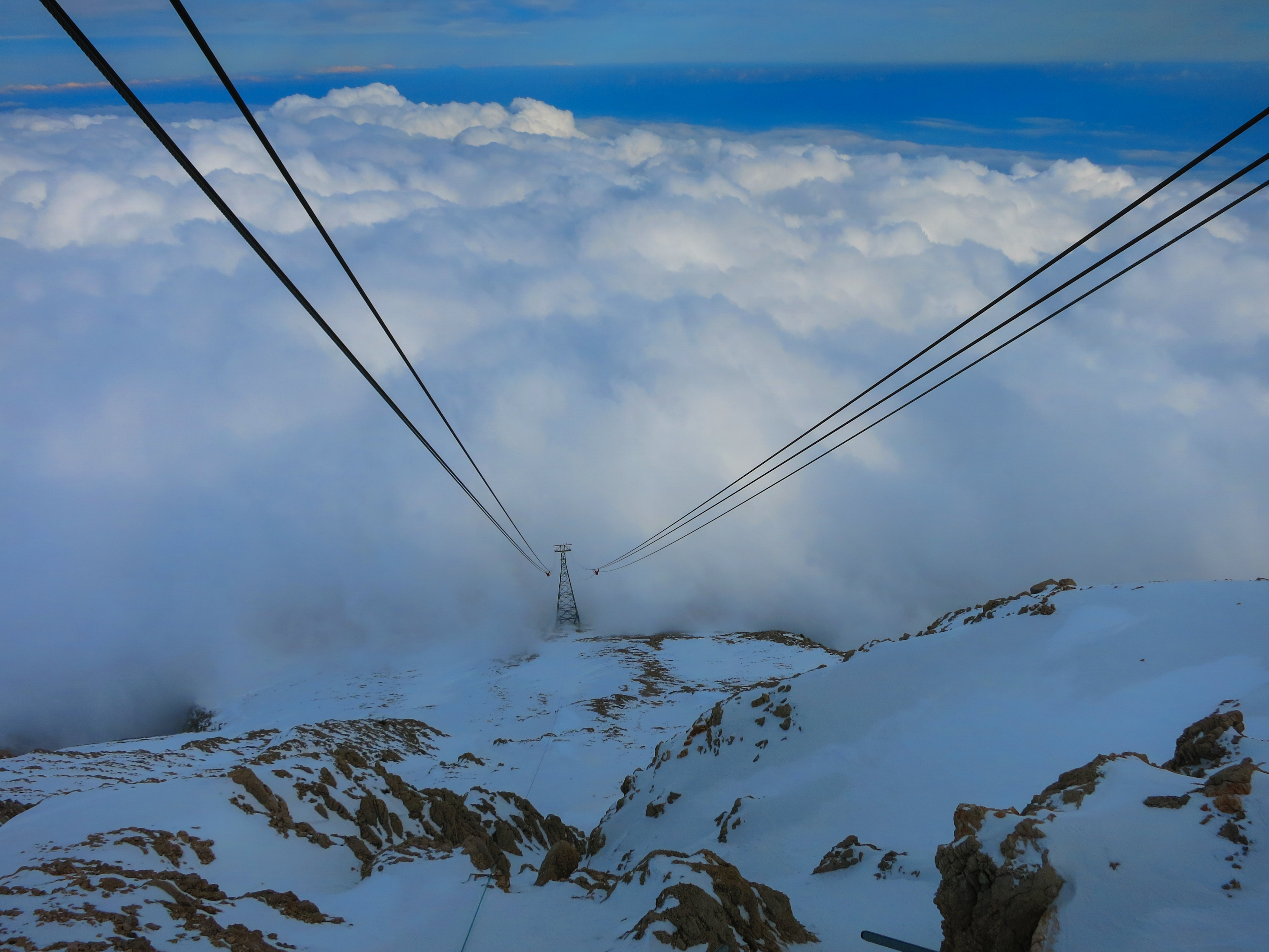 The cable car Olympos Teleferik on Tahtali mountain, a view from summit station (Antalya Province, Turkey)